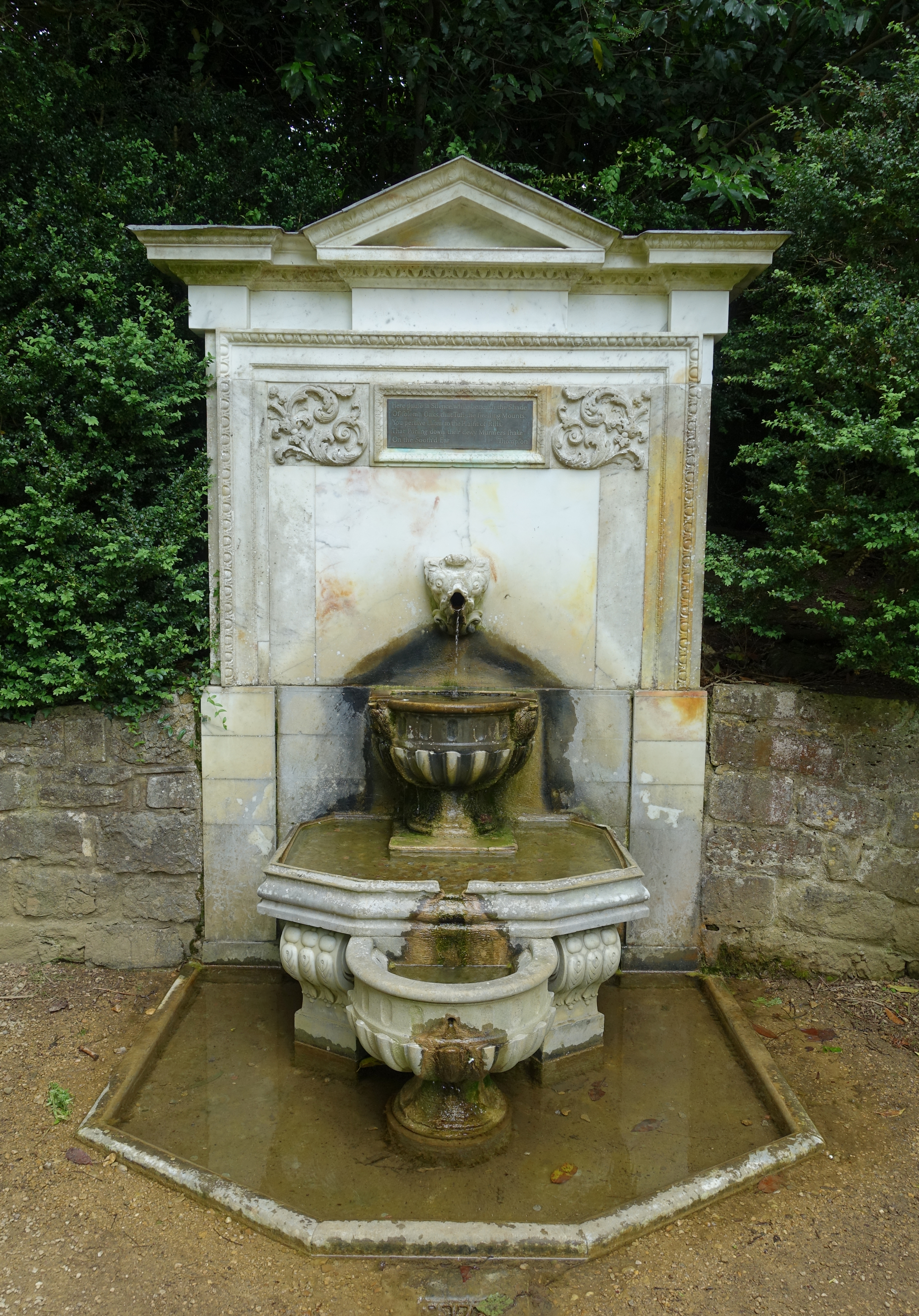 Seasons Fountain, Stowe - Buckinghamshire, England.